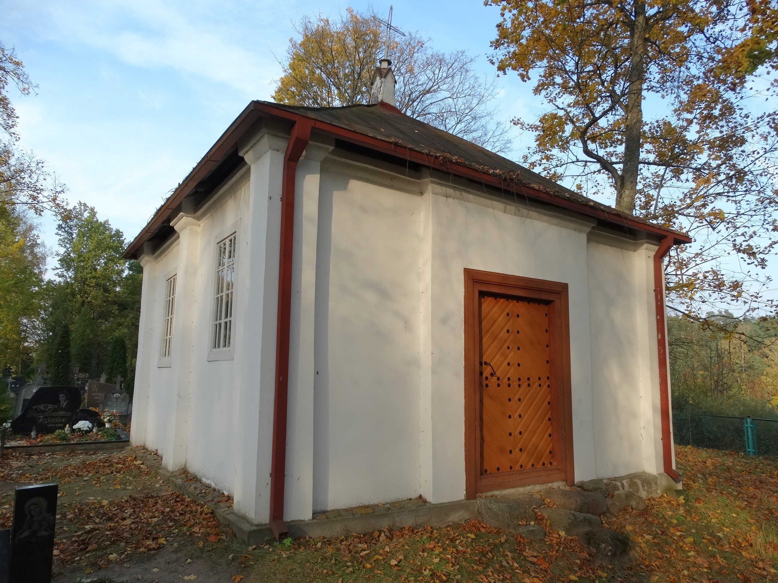 Chapel, Rumbonys, Alytus district, Lithuania